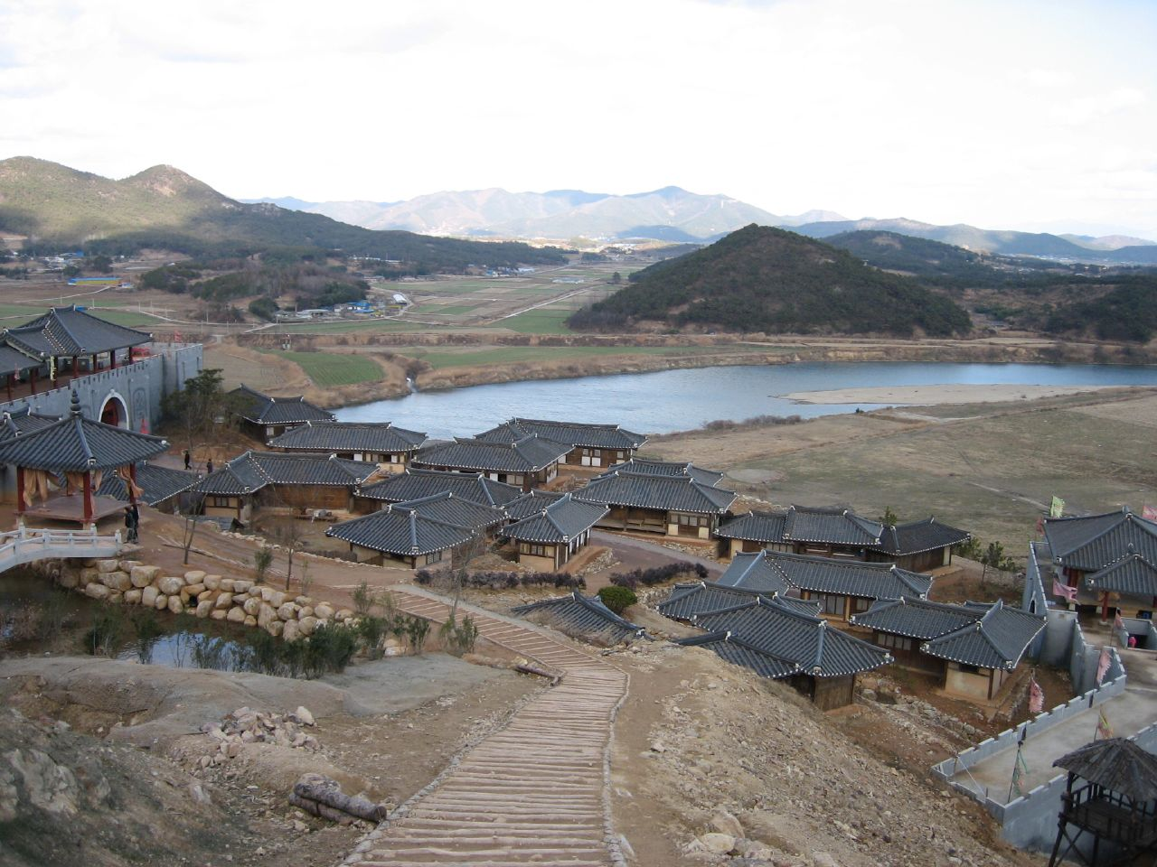 One of the sites specially built for filming 'Jumong', one of the most popular Korean TV dramas.